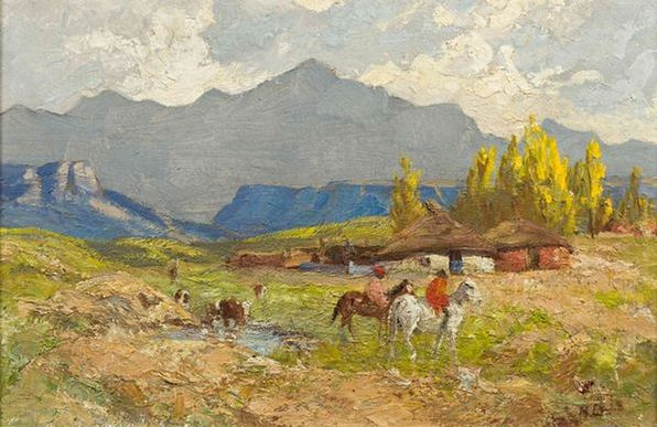 Allerley Glossop, SOUTH AFRICAN 1870-1955, Riders in Lesotho, oil on board, 24.5 x 37 cm